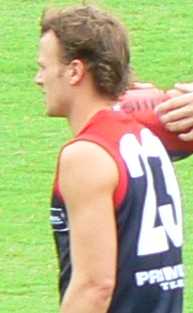 James McDonald, Australian rules footballer